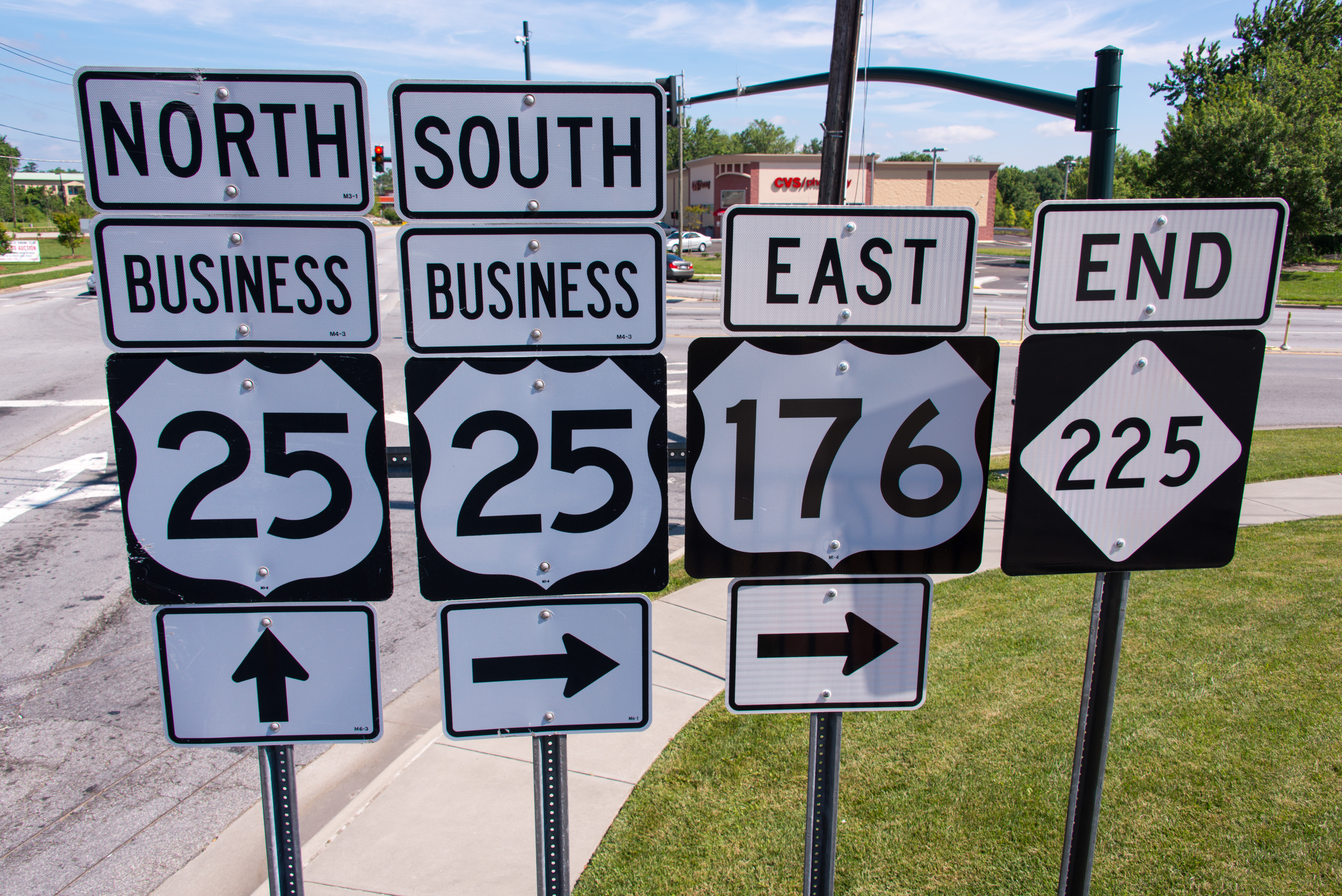 North End of North Carolina Highway 225 in Hendersonville, at the intersection of Greenville Highway-Main Street (US 25 Bus.) and Spartanburg Highway (US 176/US 25 Bus.).